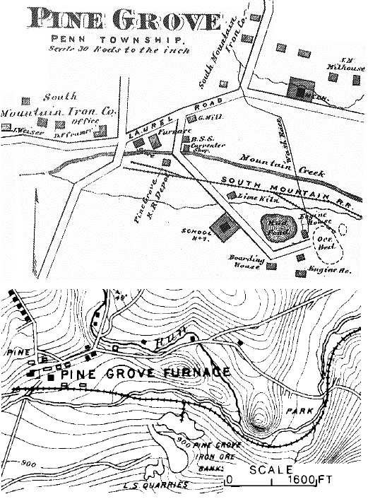 1872 F. W. Beers & Co. layout sketch (top) of Pine Grove Iron Works and 1889 topographic map (bottom) of the greater area by Ambrose E. Lehman, railroad Chief Engineer. The top map labels the distributary from "Mountain Creek" for the furnace's water race north of the "South Mountain R.R.", while Lehman's label for the natural creek in the topographic swale (south of the railroad) was "Mountain" Creek (to right off of this image). The images depict a similar road curve (now Bendersville Rd) over a stream (left side), but depict the RR bridge over the creek in different directions from the ore bed/banks.